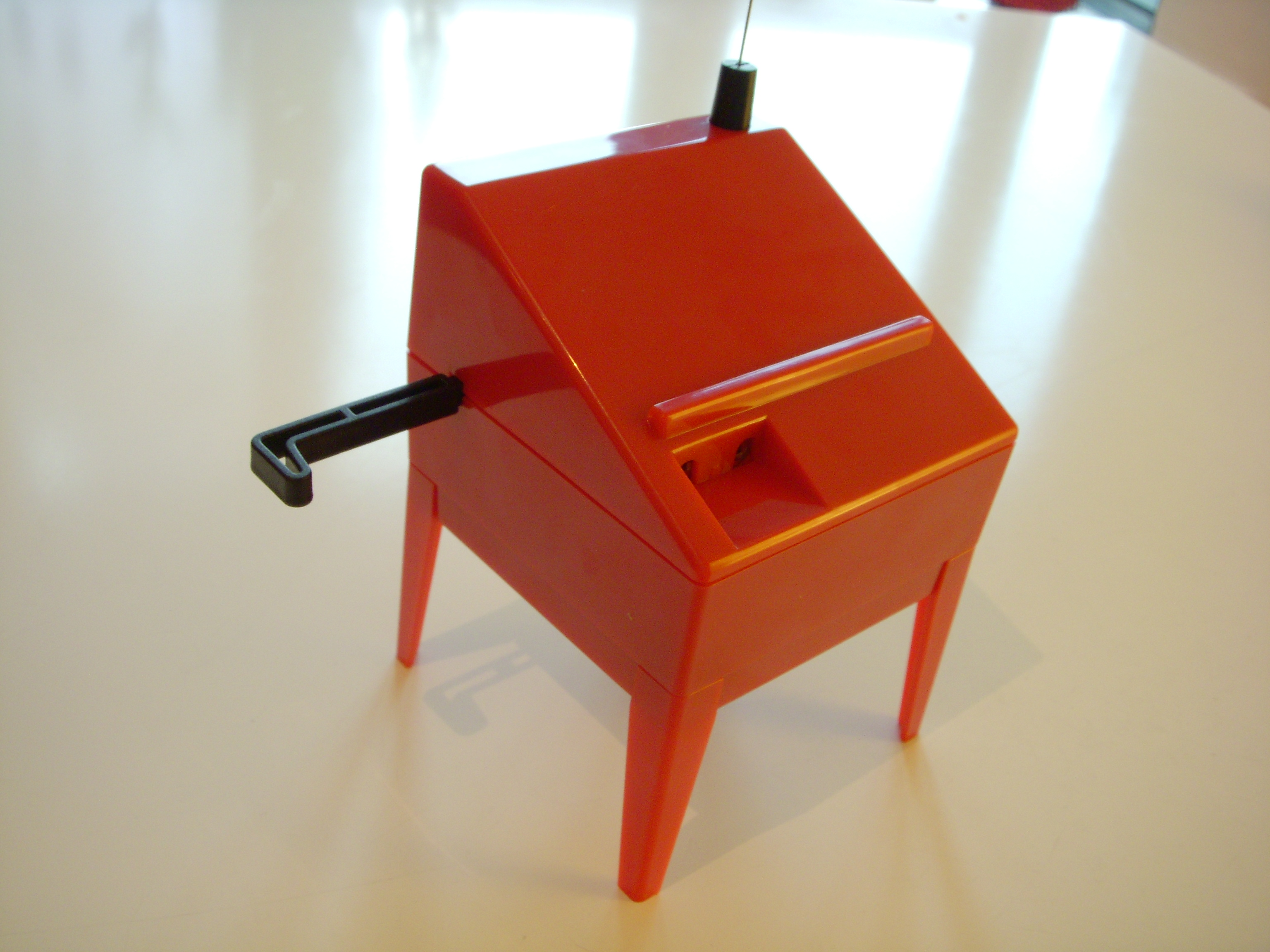 The black stick poking out the side is the on/off switch.